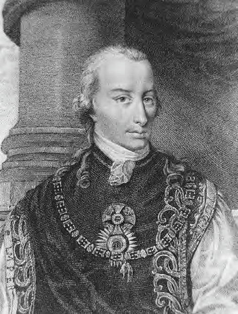 Francis I, emperor of Austria, whose persistent opposition to Napoleonic France cost him extensive territory and the loss of Habsburg influence in Germany.